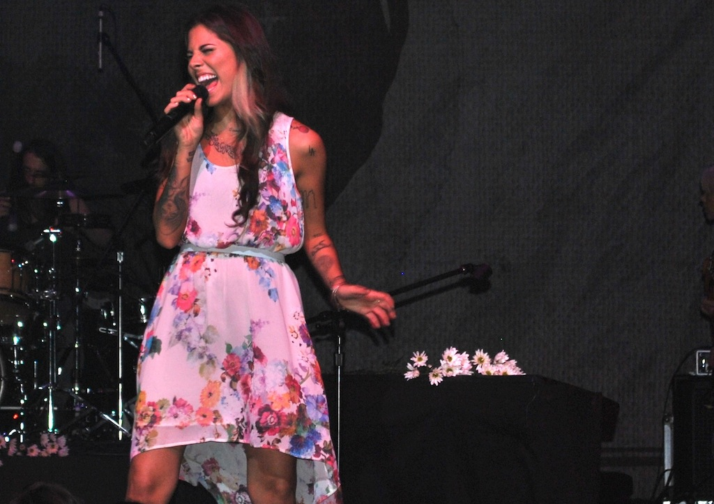 Christina Perri singing "Distance" in the Lovestrong Tour at San Juan, Puerto Rico